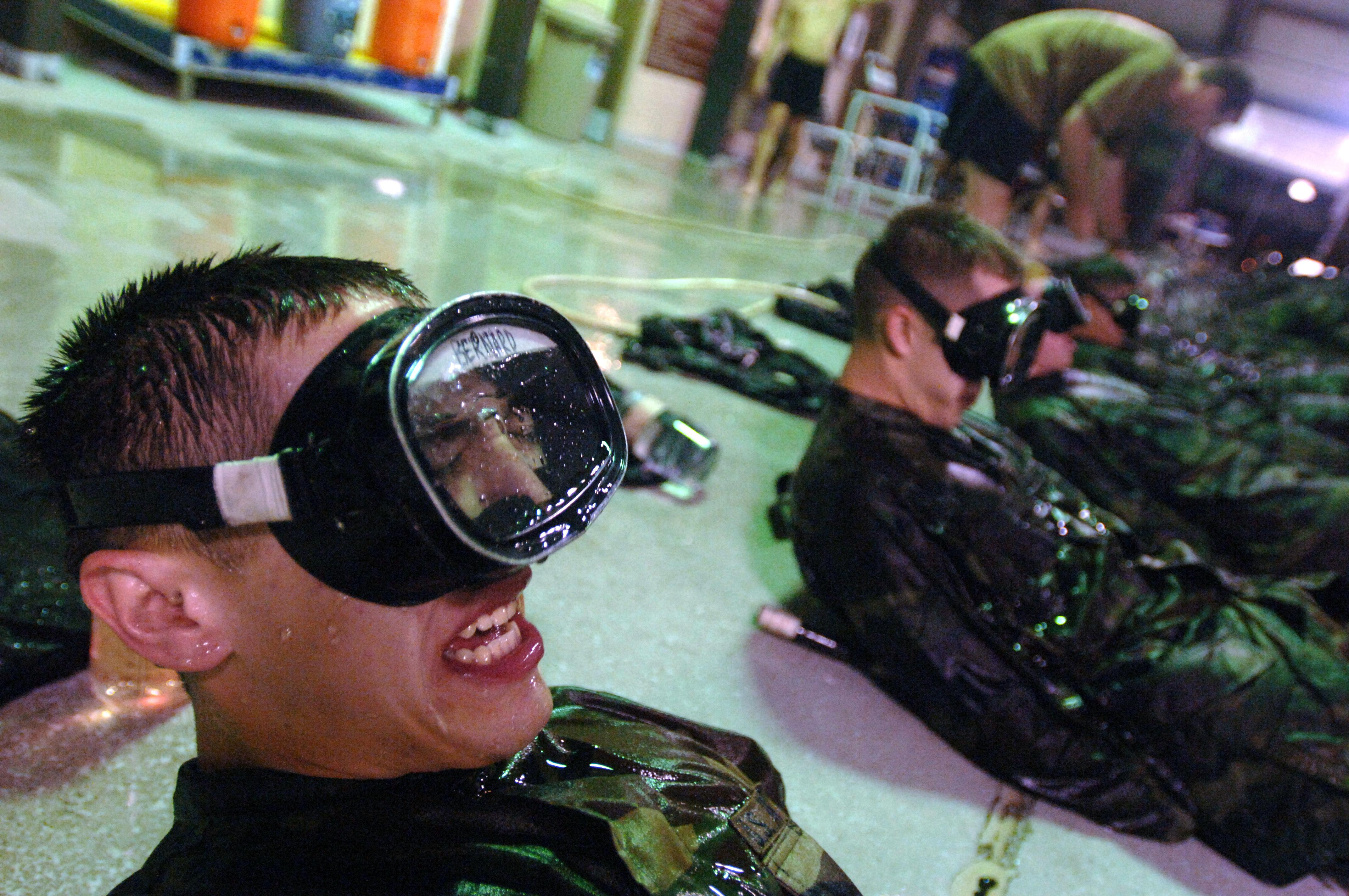 U.S. Air Force Airman Matthew Bernard (foreground) wears a water filled mask while performing flutter kicks after a non-stop physical training during an extended training day at the Pararescue Indoctrination Training Center. Location: LACKLAND AFB, TEXAS (TX) UNITED STATES OF AMERICA (USA)